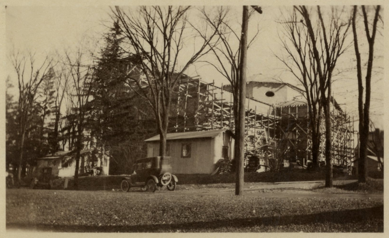 Front of Ira Allen Chapel under construction at the University of Vermont. View from the "College Green", just southwest of the site (photo dated: 23 Nov 1925).